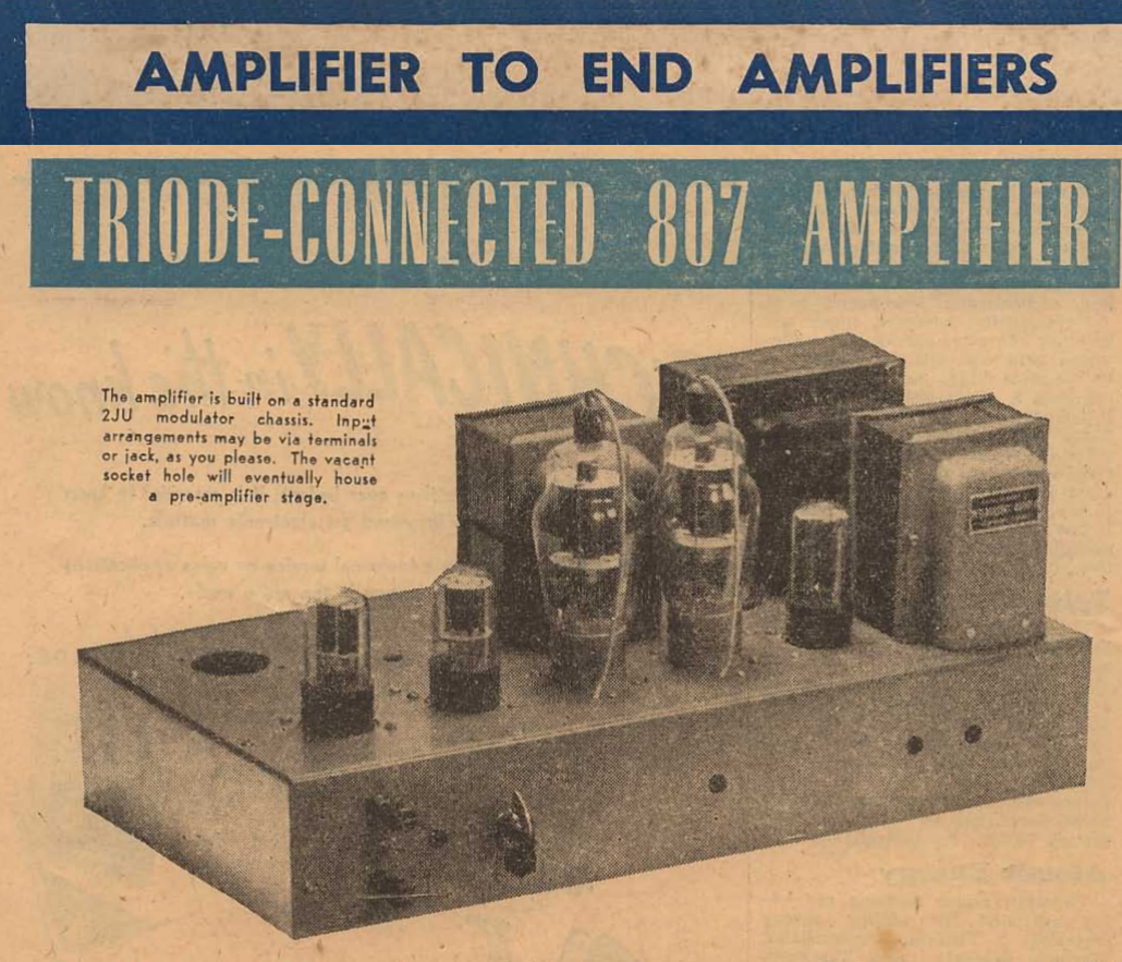 The heading of an article on the Williamson Amplifier - Radio Hobbies in Australia, March 1948. The bold brave Amplifier to End Amplifiers is typical of superlative responses of the period.